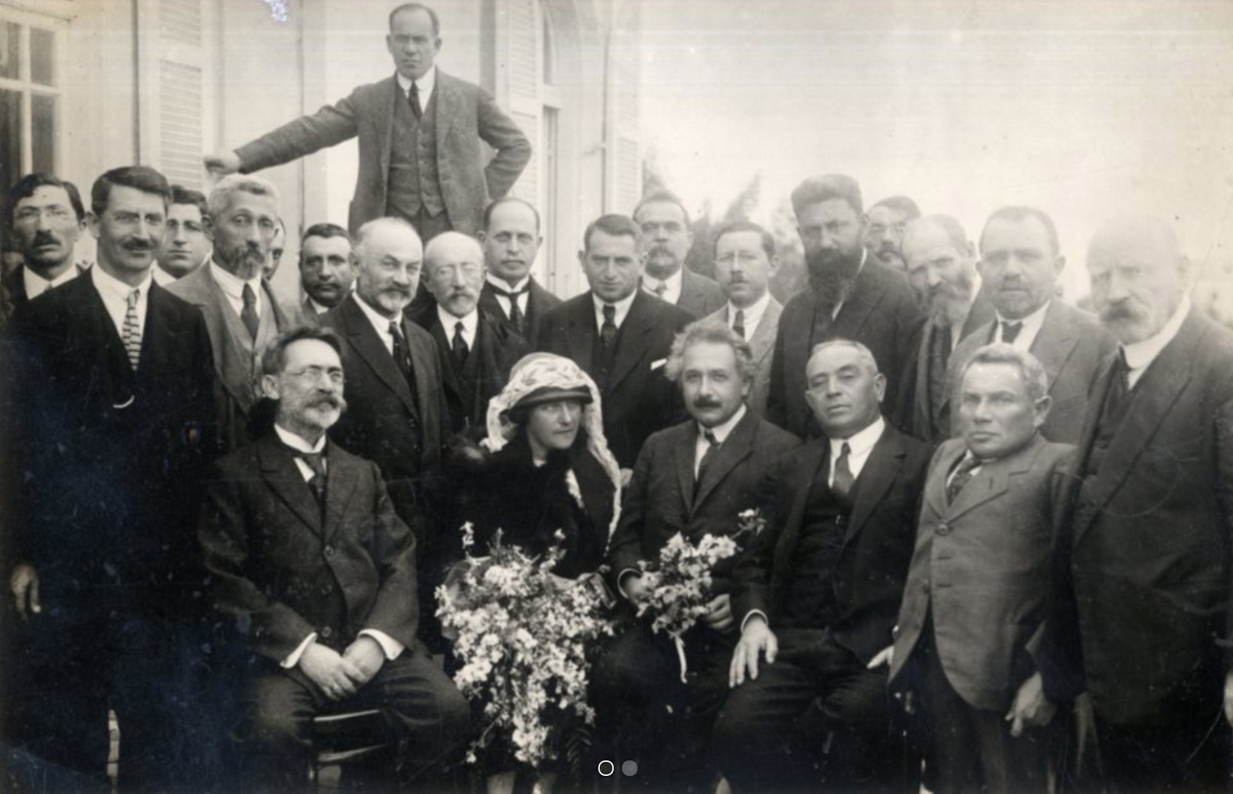 Albert Einstein visiting Meir Dizengoff in Tel Aviv